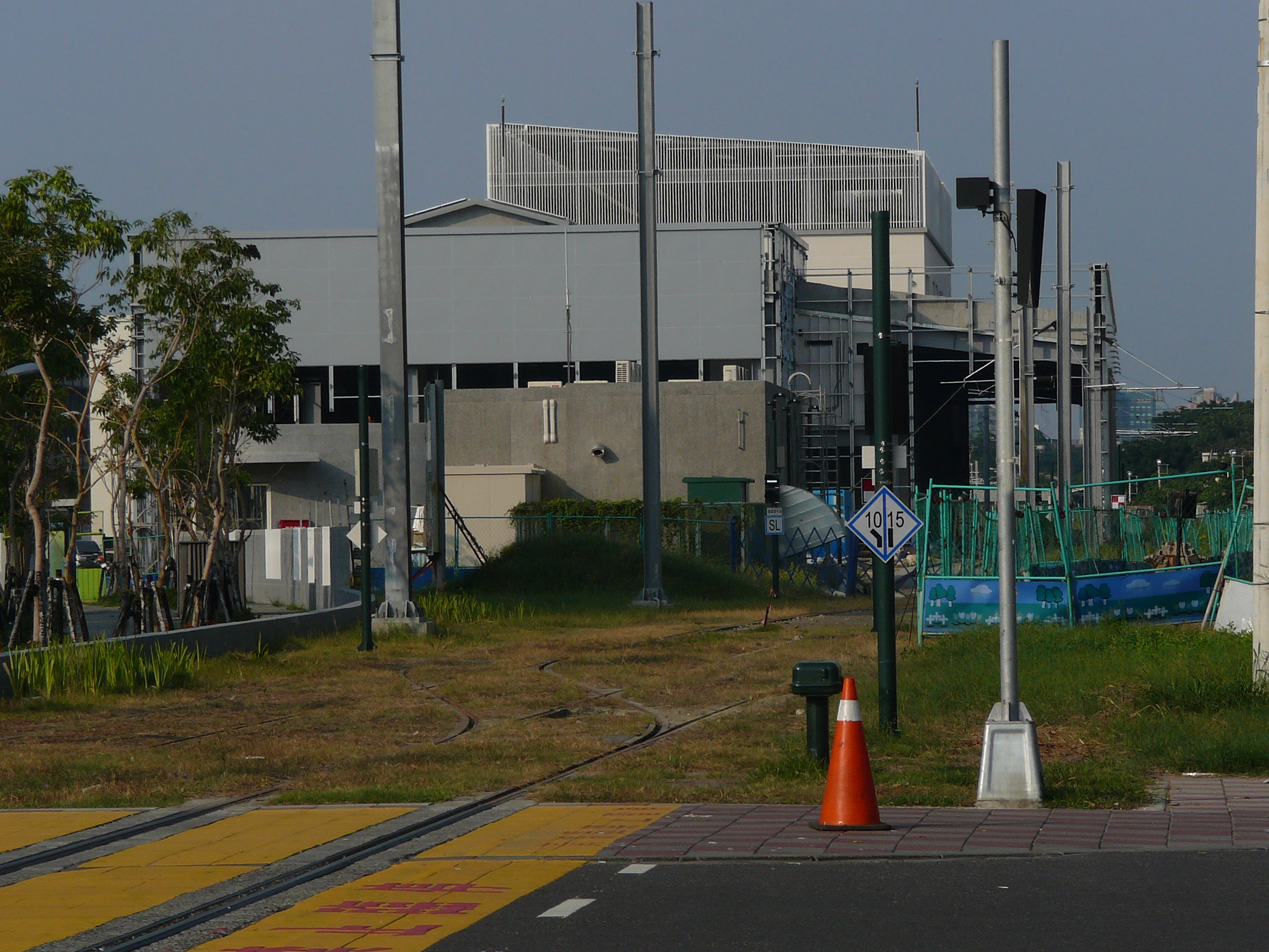 Kaohsiung LRT Cianjhen Depot